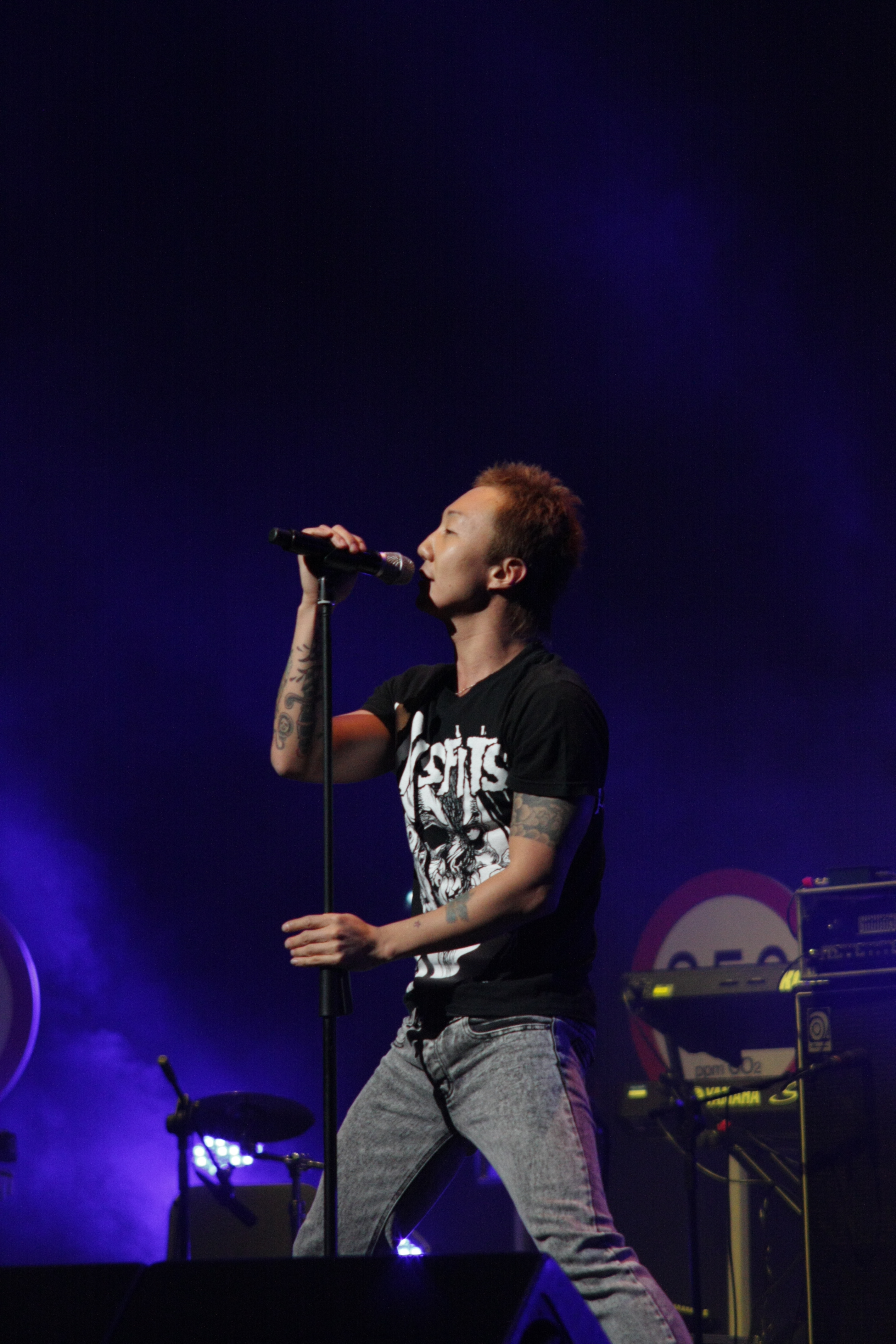 No Brain, Rock music groups from South Korea